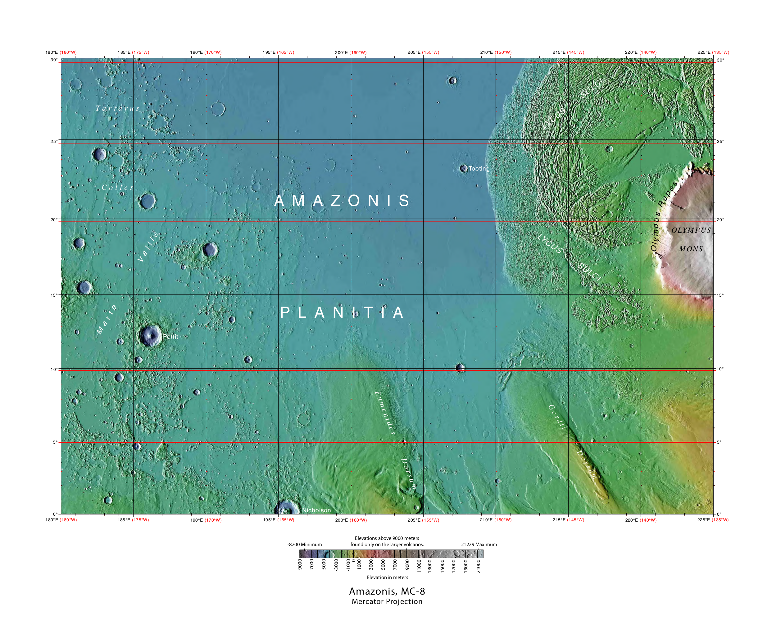 MOLA Topographic Map of Amazonis Quadrangle (MC-8) on the planet Mars. NOTE: Converted the original PDF file to a PNG File (via GIMP v2.8.4 program) - and uploaded to Wikimedia Commons.